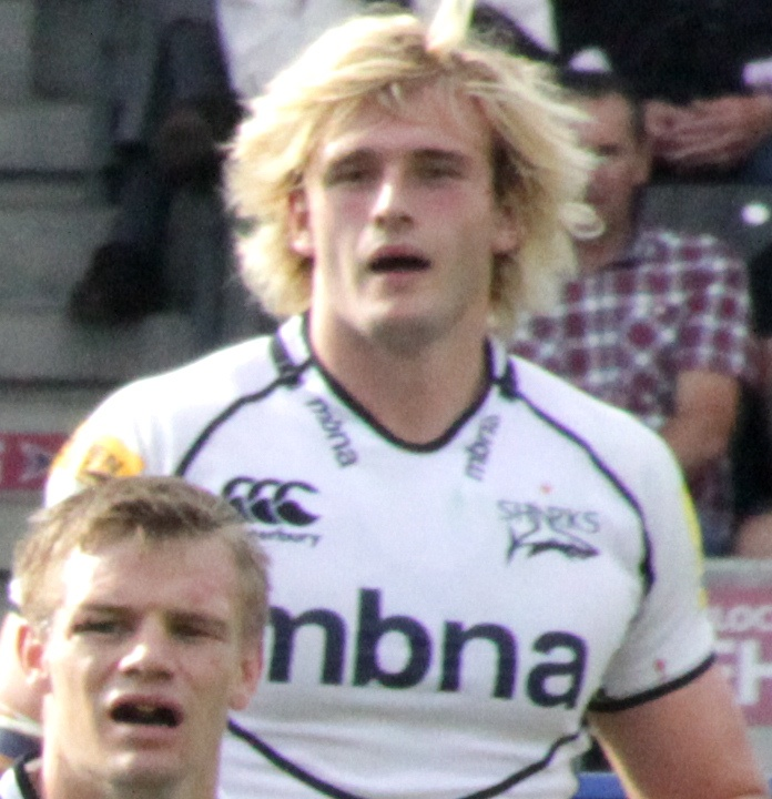 Scotland international rugby union player Richie Gray while playing for Sale Sharks in English Premiership.